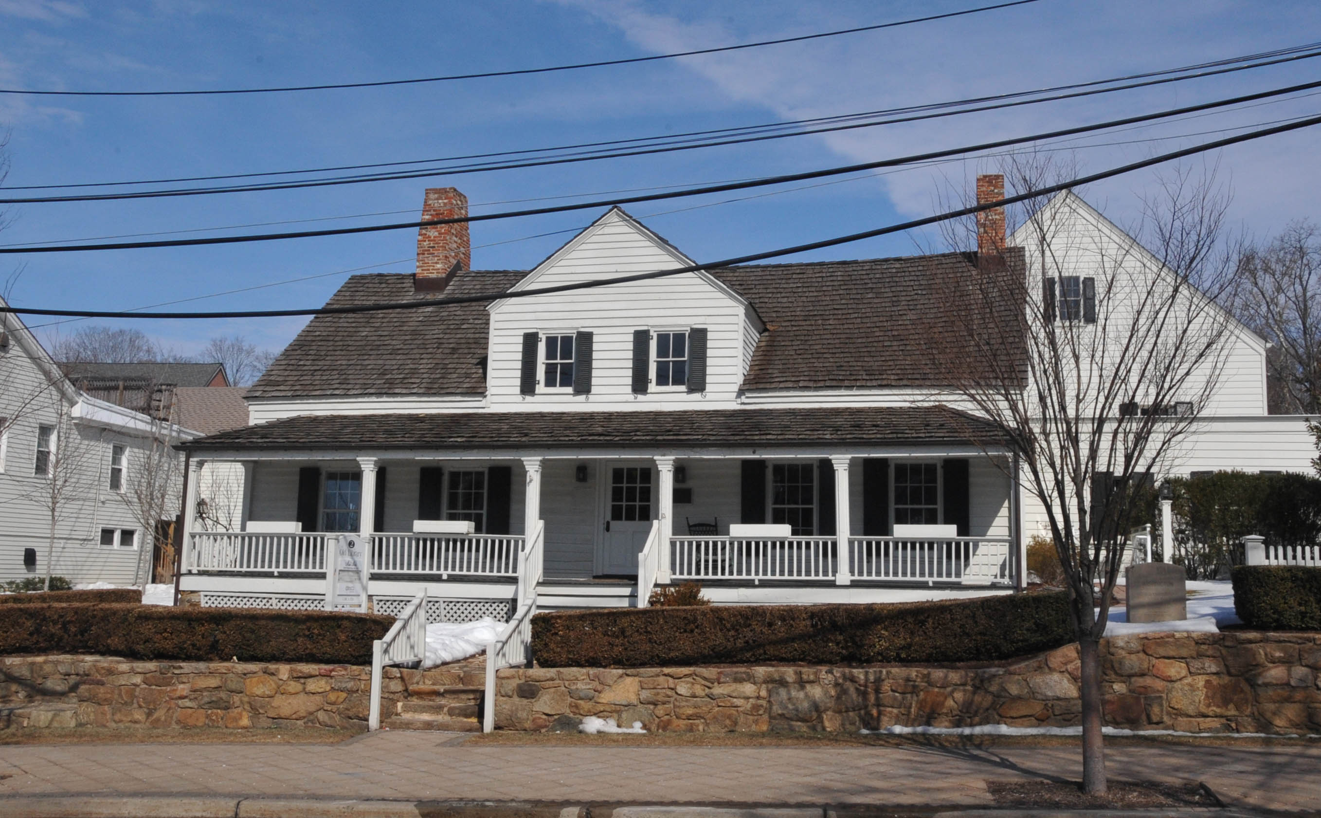 CONSTRUCTED CIRCA 1750. WASHINGTON’S ARMY PASSED THROUGH THIS AREA ON HIS WAY TO MORRISTOWN AFTER HIS VICTORY AT PRINCETON. GENERAL MAD ANTHONY WAYNE STAYED HERE AND AARON WILDE, A TORY SPY WAS CAPTURED AND HUNG HERE. IT IS NOW THE BERNARDSVILLE LIBRARY